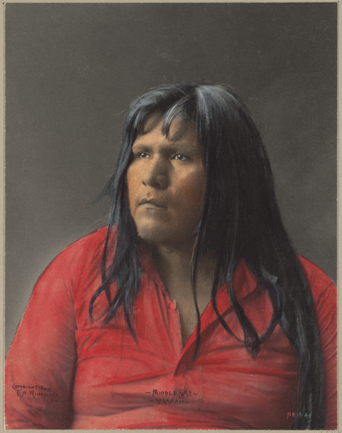 BPLDC no.: 09_06_000087 Rinehart no.: 1441 Title: Middle Sky, Cocapah Photographer: Rinehart, F. A. (Frank A.) Copyright date: 1899 Extent: 1 photographic print : platinum, hand-colored Genre: Platinum prints; Portrait photographs Subject: Indians of North America; Cocopa Indians; Trans-Mississippi and International Exposition (1898 : Omaha, Neb.) BPL Department: Print Department